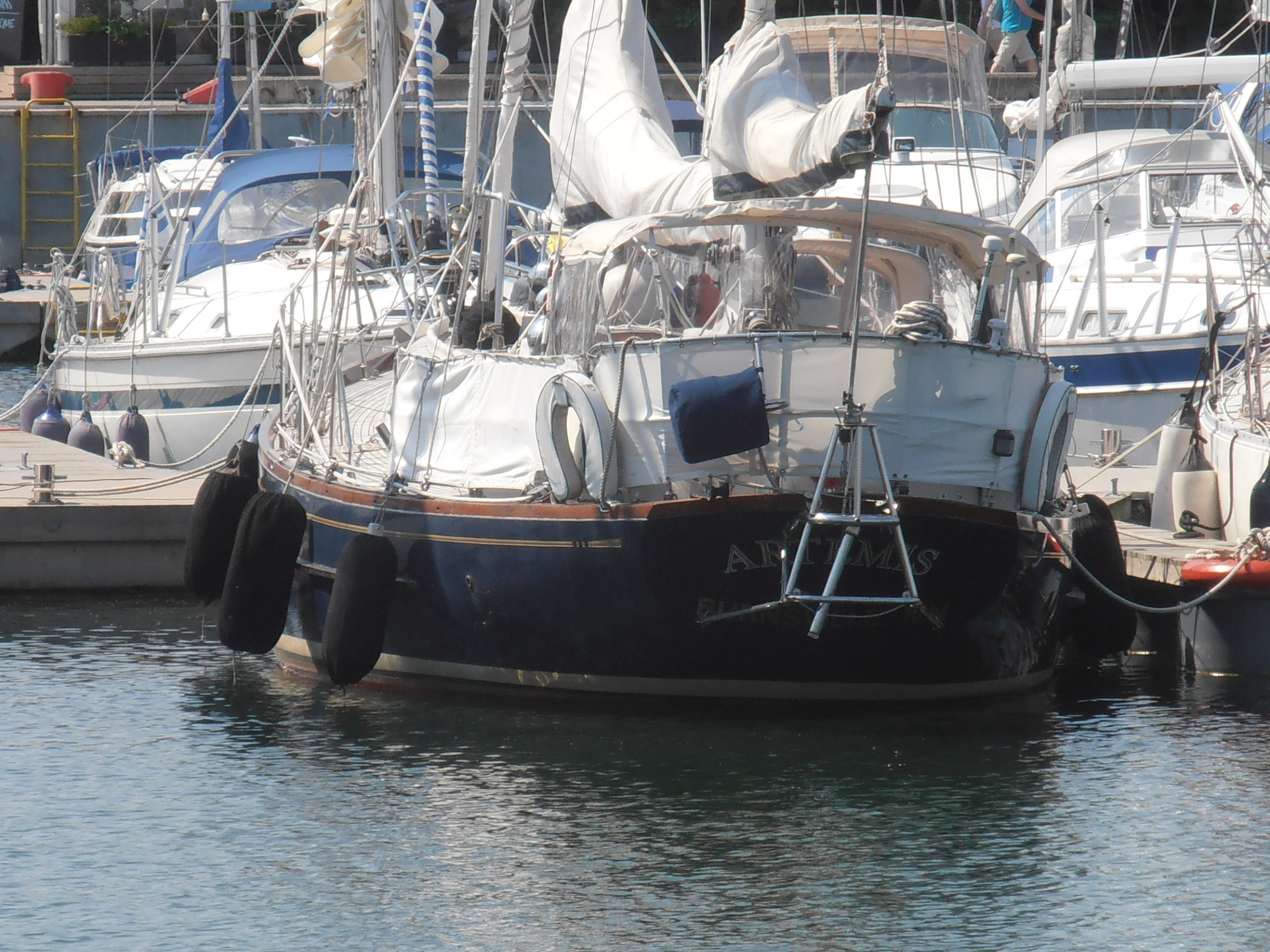 Recreational vessel Artemis (port of registry : Burnsville, MN) in Tallinn, June 6, 2013